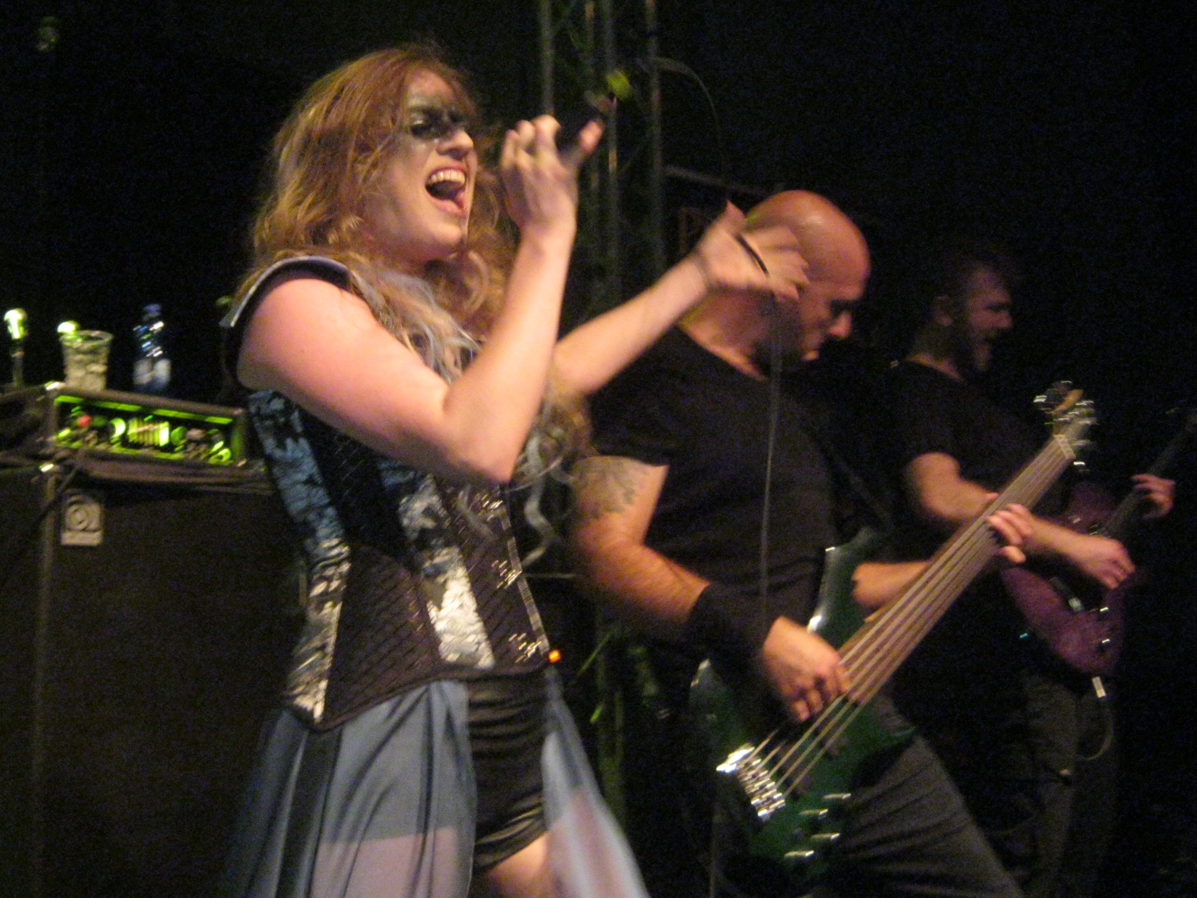 Prey For Nothing Vs Scardust - Metal Fight 02.06.16, Israel